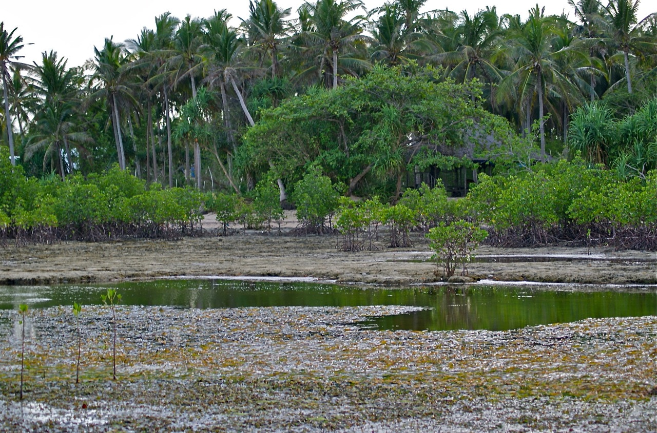 Taken at low tide, the beach is bracketed by Coconut trees (background) and clusters of juvenile Mangroves (foreground). The sandstone bottom makes a perfect habitat for a multitude of lifeforms, mostly Echinoderms (e.g., starfishes, sea cucumbers).